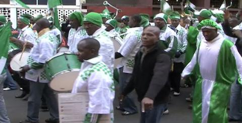 Nigerian fans parade through the Hillsborough neighborhood of Johannesburg before their team's first game in the World Cup against Argentina.